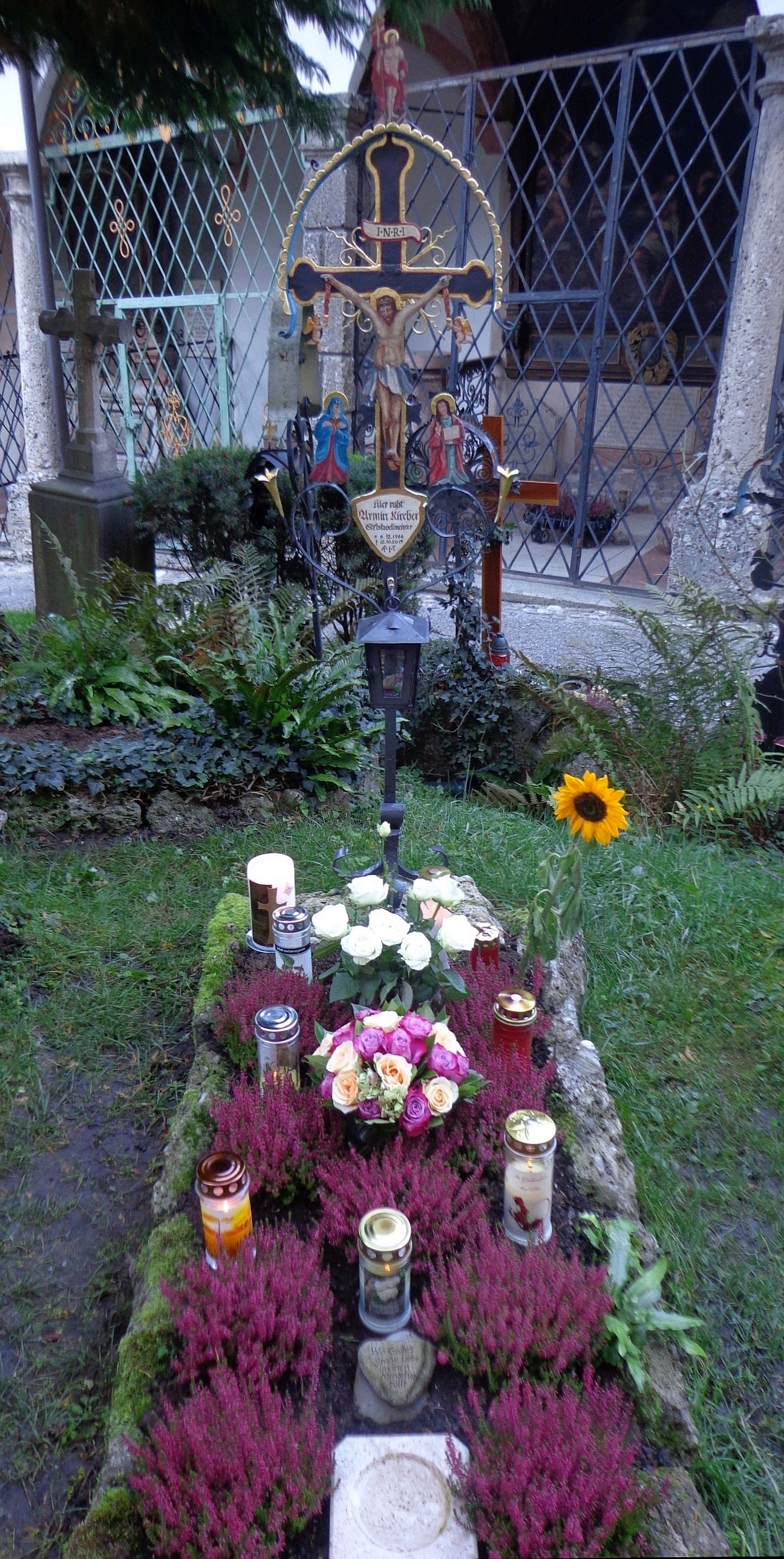 Petersfriedhof Salzburg: grave of the composer Armin Kircher